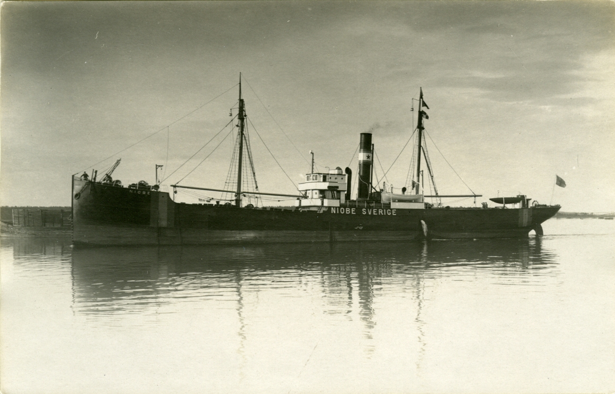 General cargo ship NIOBE built at shipyard Robert Thompson and Sons, Southwick, as KINGSCOTE (yard № 131, launched: 10-04-1883, completed: 04-1883), 1908 sold to Swedish owner and renamed NIOBE, 1923 ANVALL, 1935 sold to Finnish owner and renamed ZIVA, 1937 TORAS, 19-11-1939 German prize, 1940 FIDUCIA, 1942 returned to Finnland and renamed TORAS again, 18-01-1947 foundered in ice near Kotka, collection J. Robert Boman (1926 - 2002), owned by Sjöhistoriska museet.